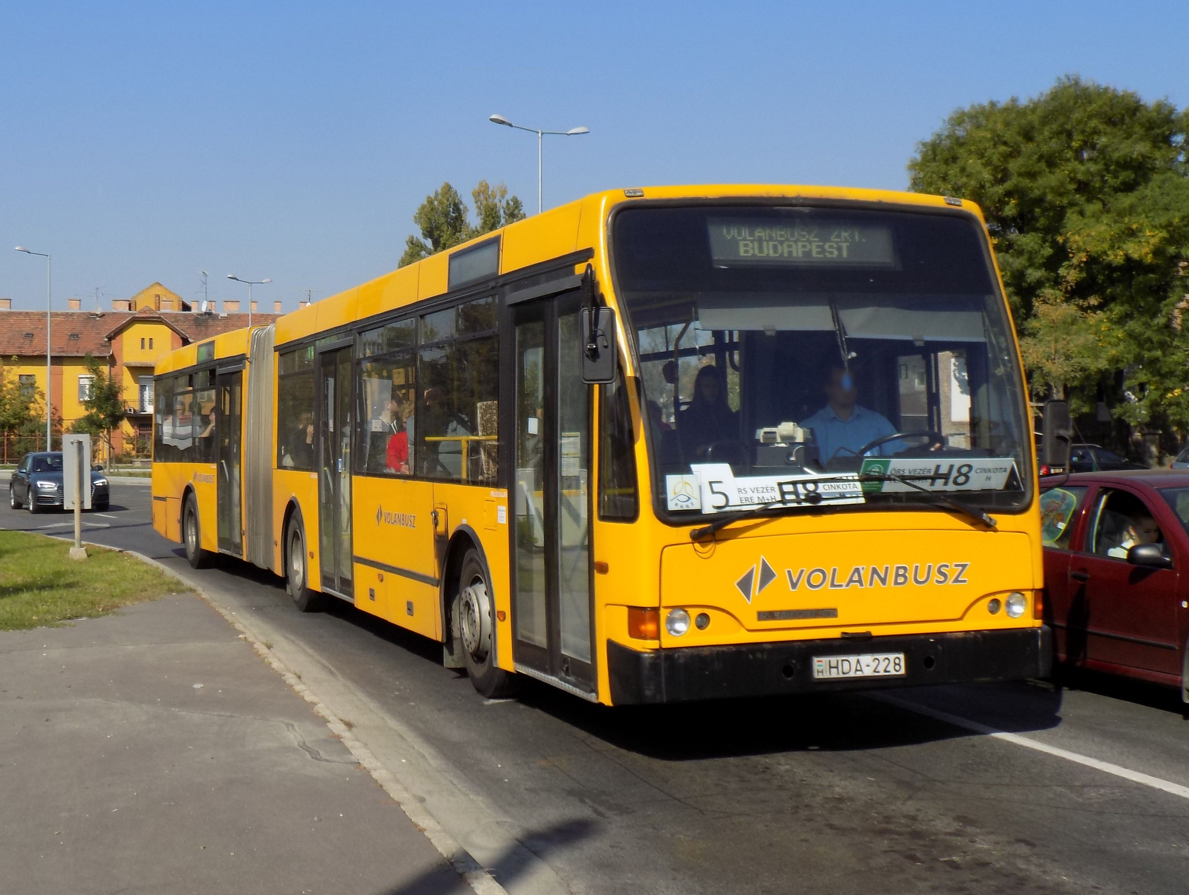 Suburban railway replacement bus in Budapest, Cinkota